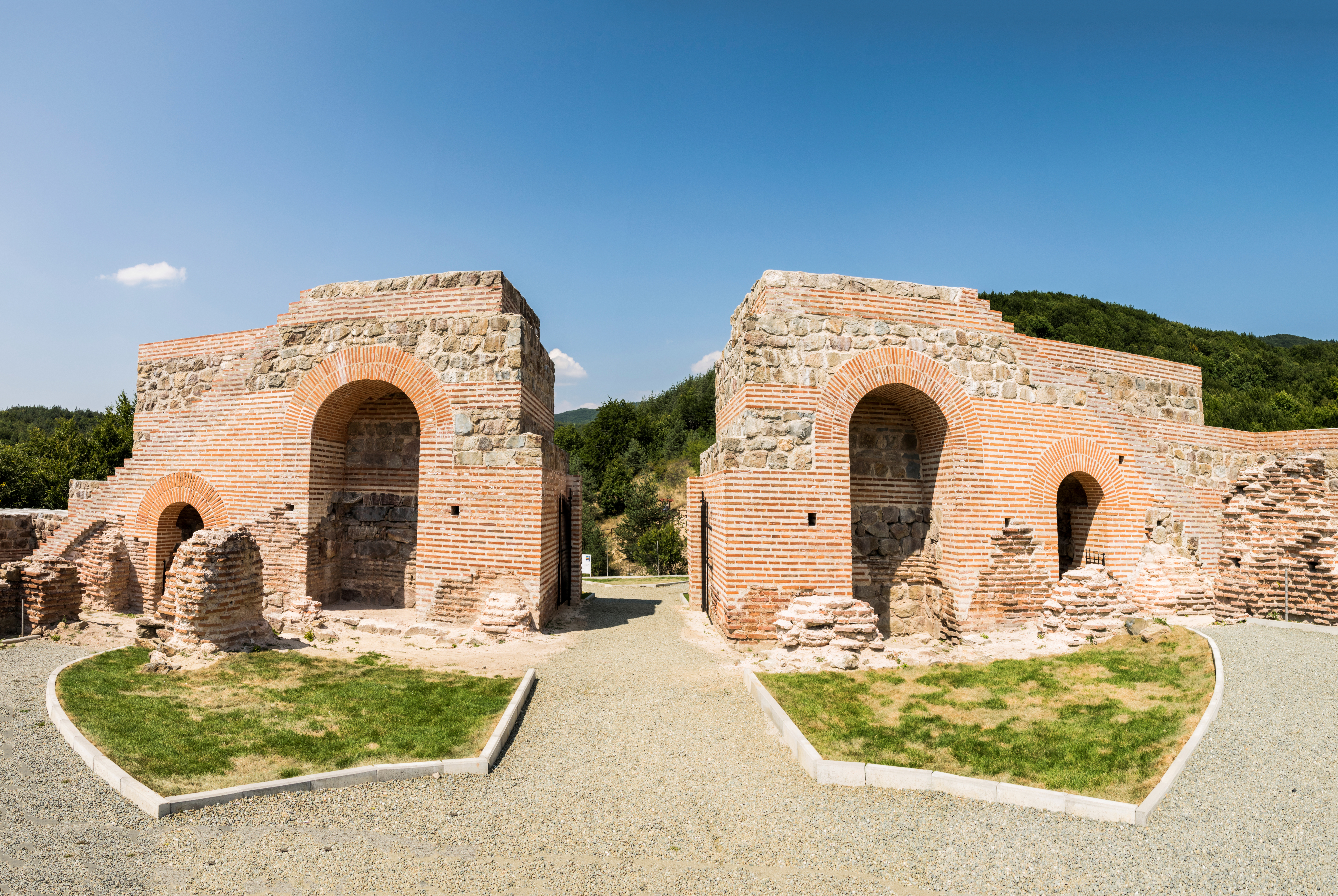 The Gates of Traianus Fortress between Sofia and Plovdiv, Bulgaria. Non-authentic restoration made in 2015.